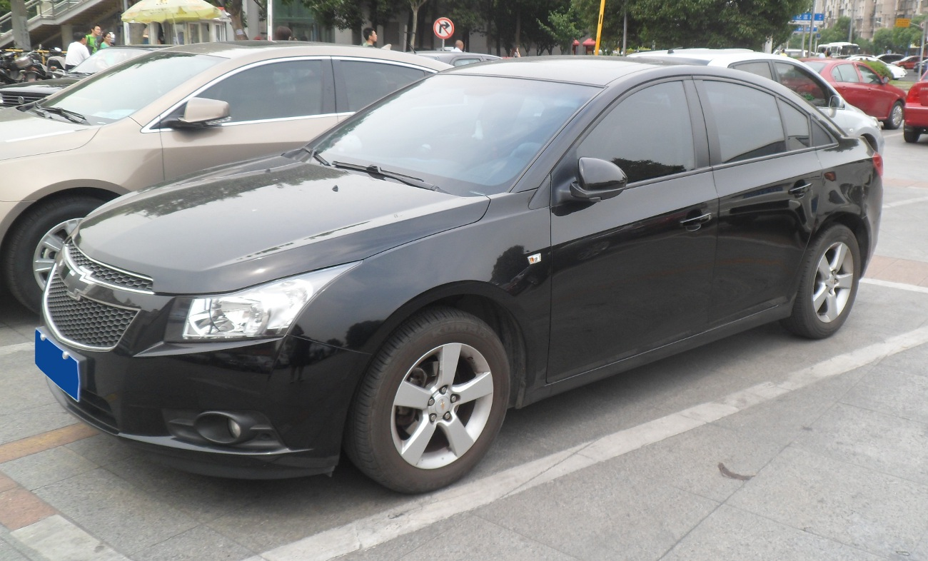 Chevrolet Cruze J200 sedan photographed in Shanghai, China.